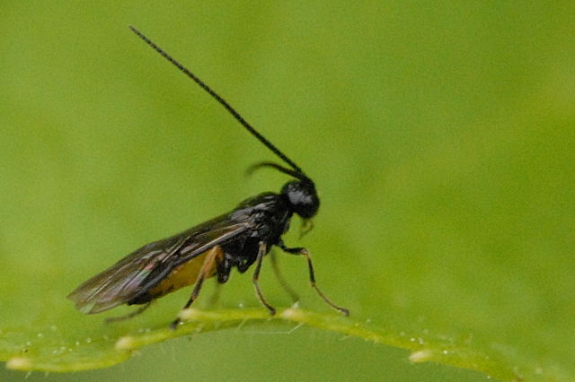 Microplitis tuberculifer from Commanster, Belgian High Ardennes .